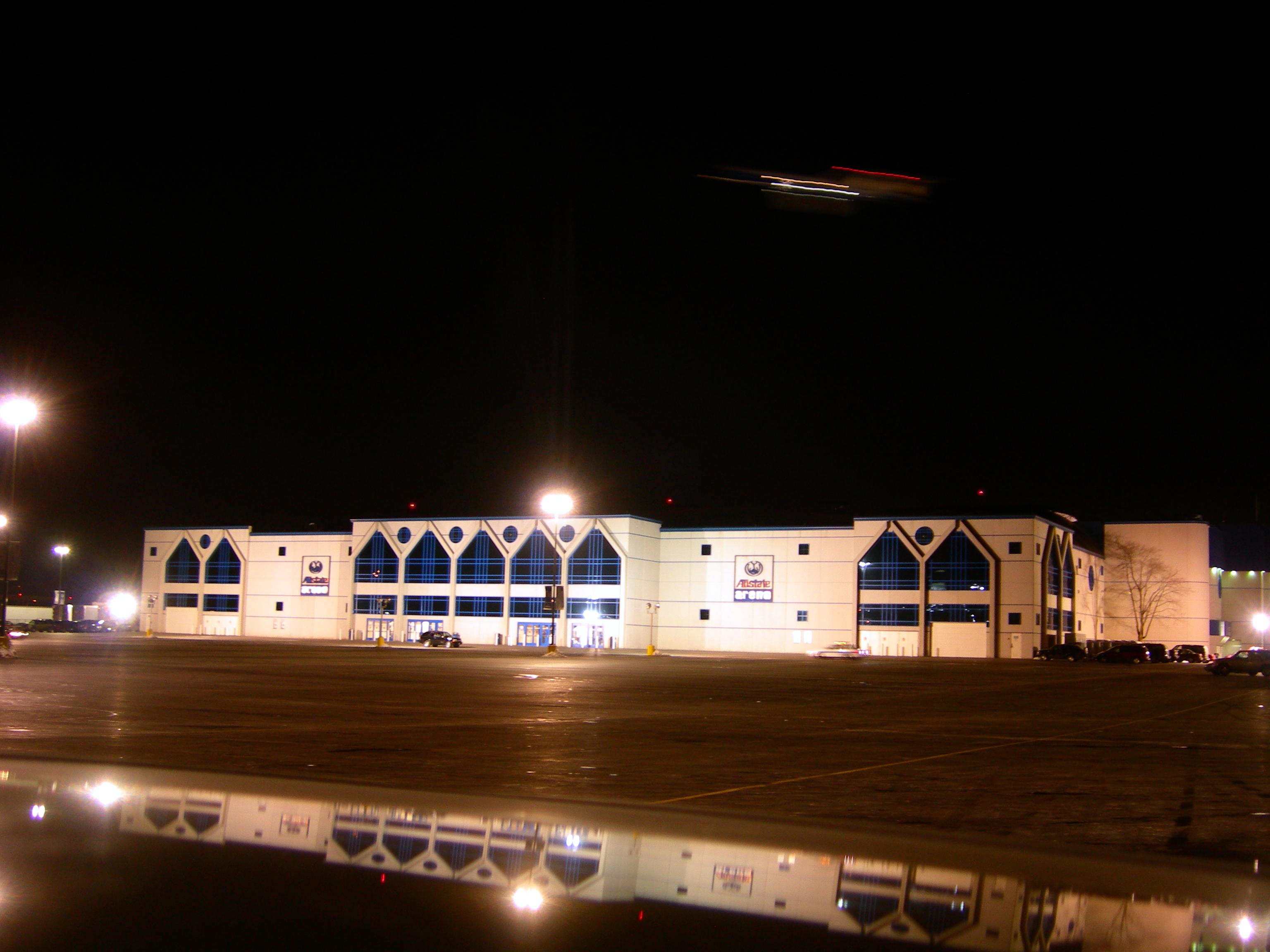 Allstate Arena in Chicago. The thing above it that looks like a UFO is an airplane landing at O'Hare airport.